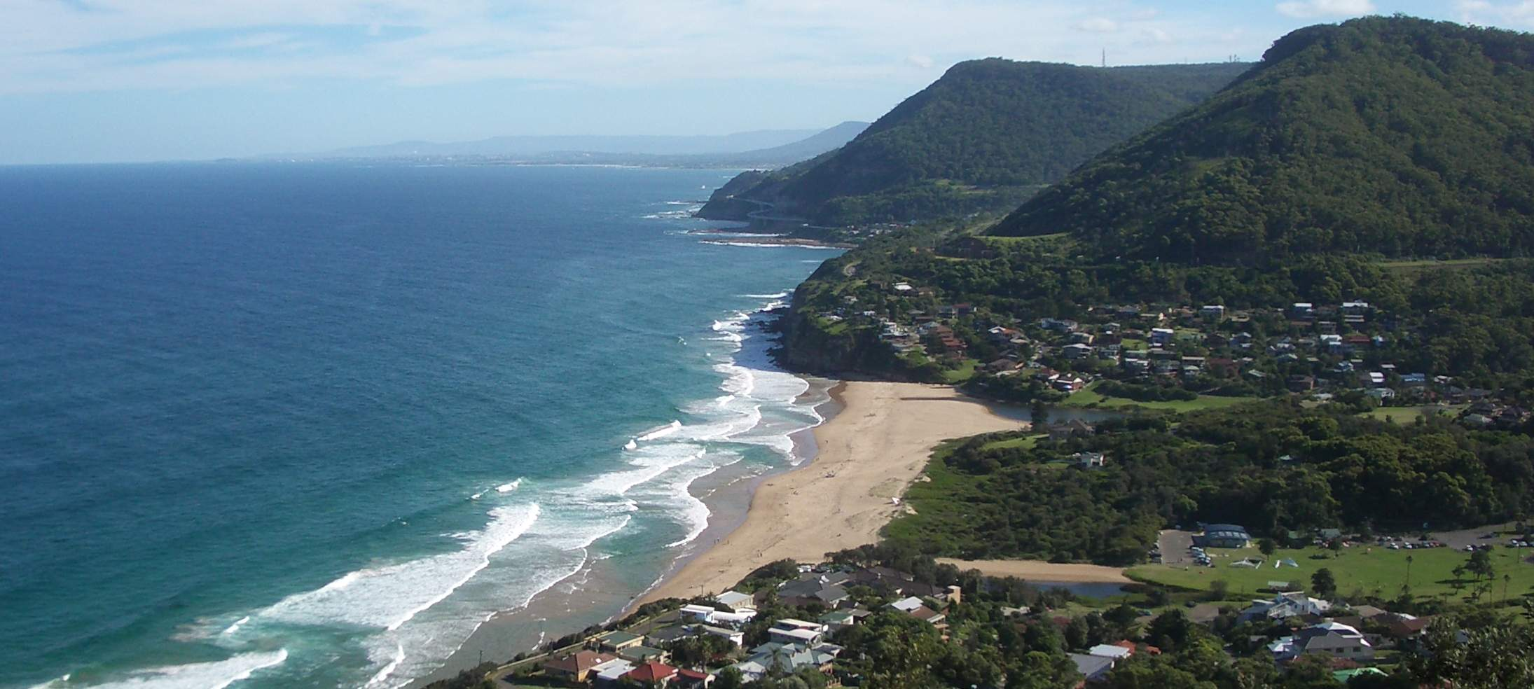 Photo of Stanwell Park:Stanwell Park, NSW, Australia, viewed from Bald Hill. Author: Klaus-Dieter Liss, 4.3.2006.